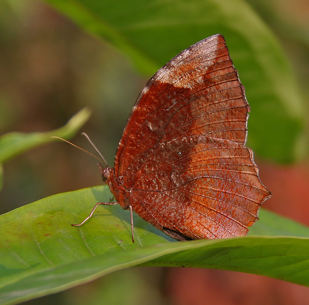 Common Palmfly Elymnias hypermnestra at Samsing in Darjeeling district of West Bengal, India.